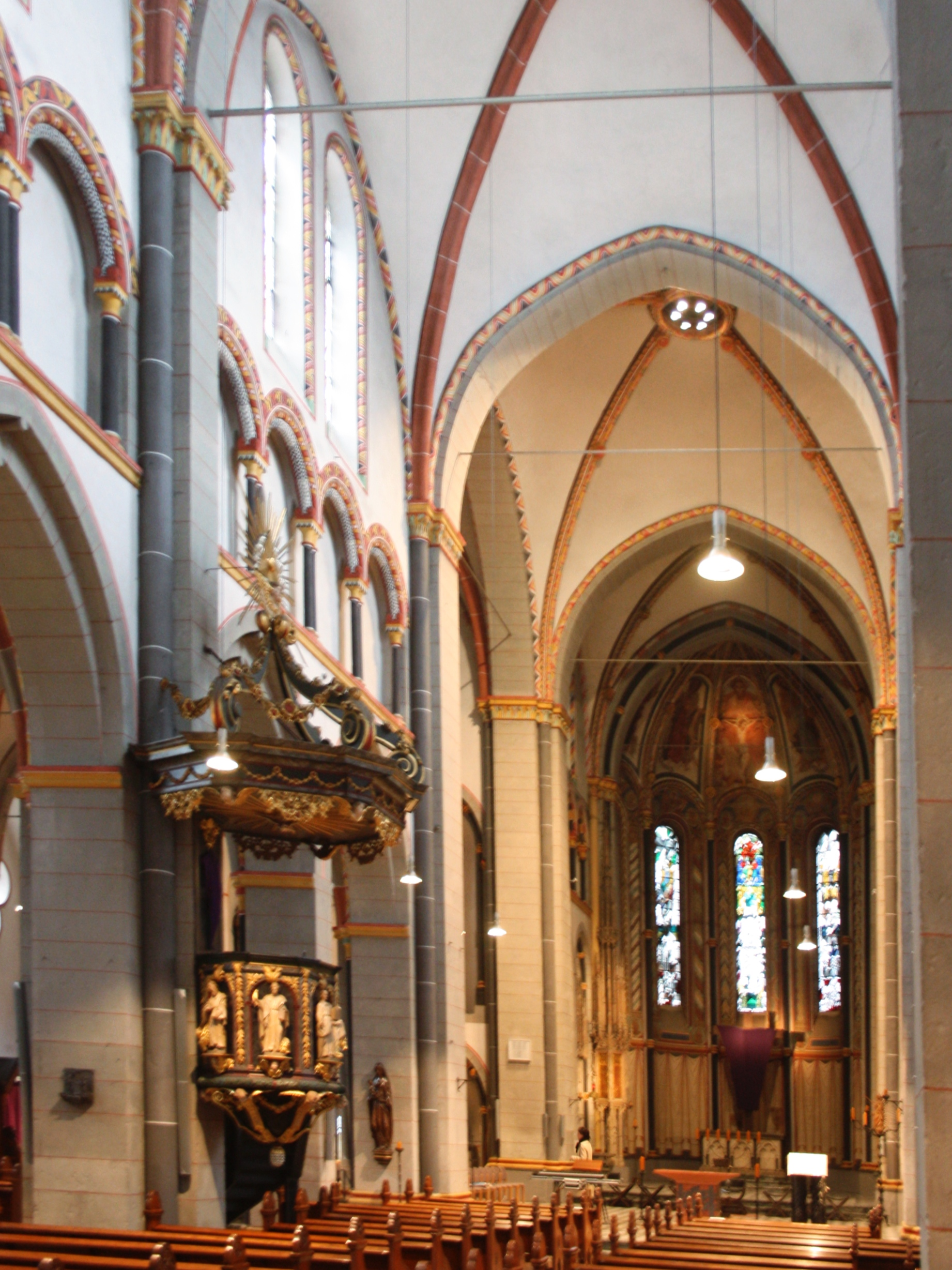 Düsseldorf-Gerresheim, Germany. Church St. Margareta, nave towards East.